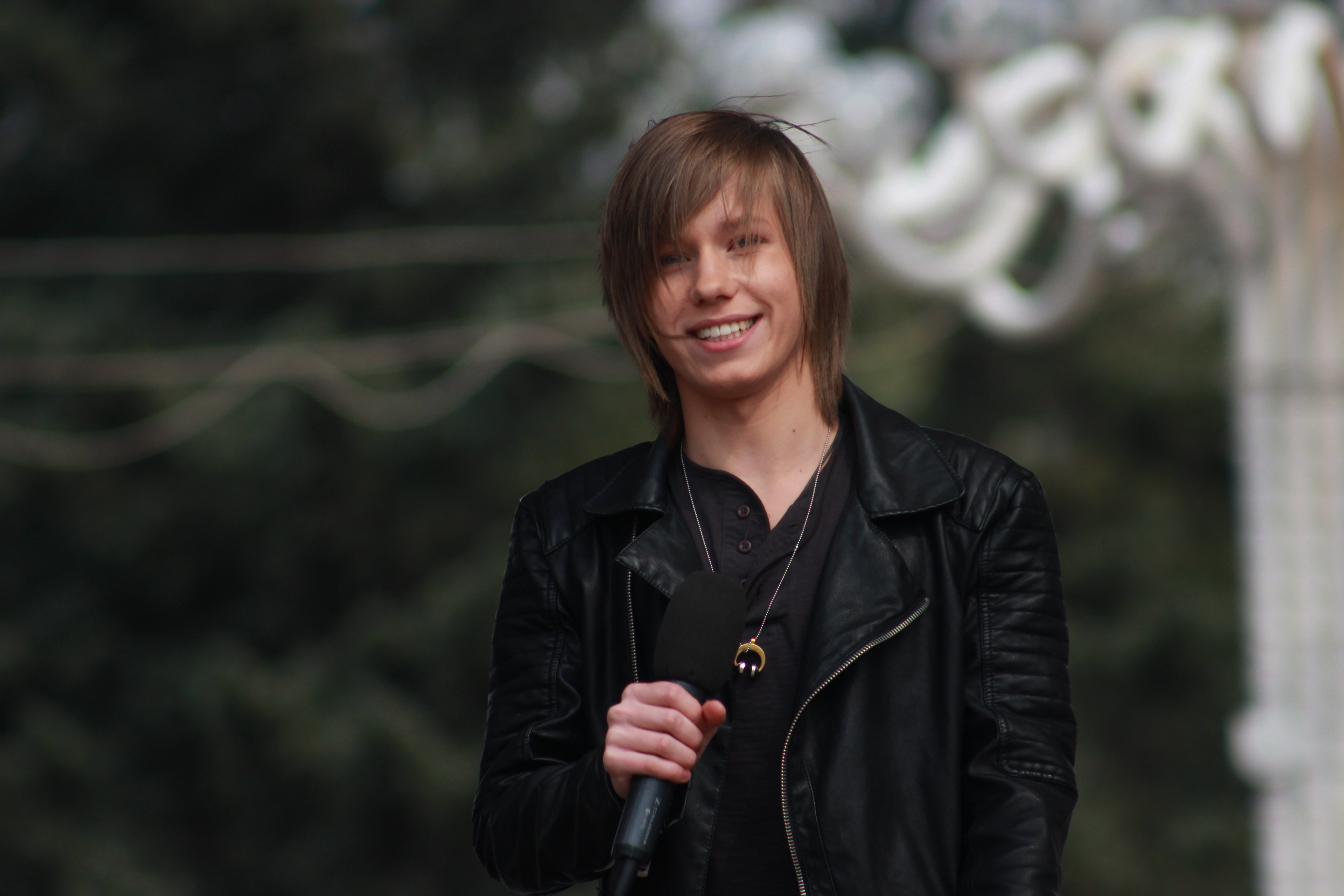 Vladislav Kurasov